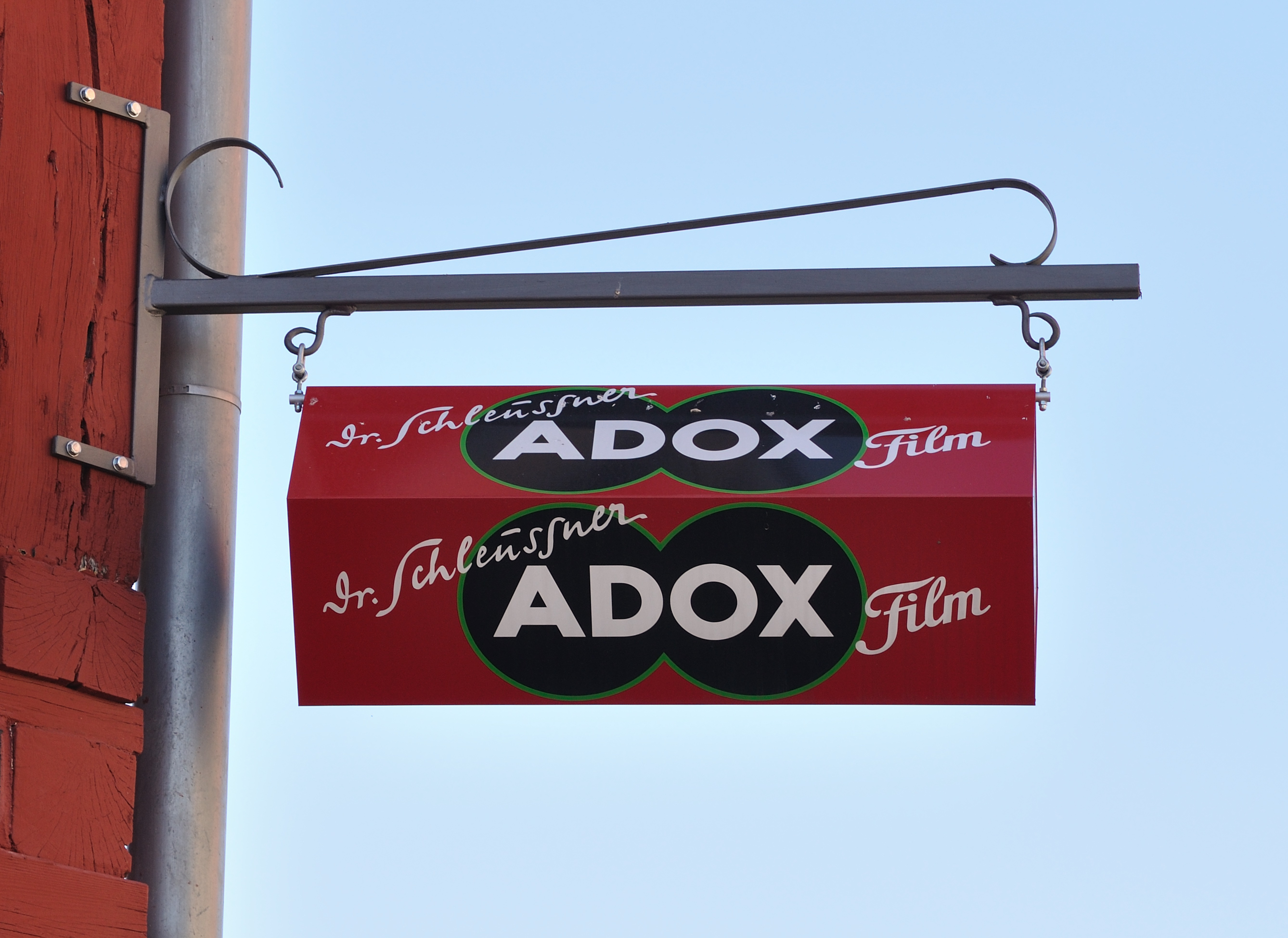 Adox shop sign in Hessenpark, Germany.